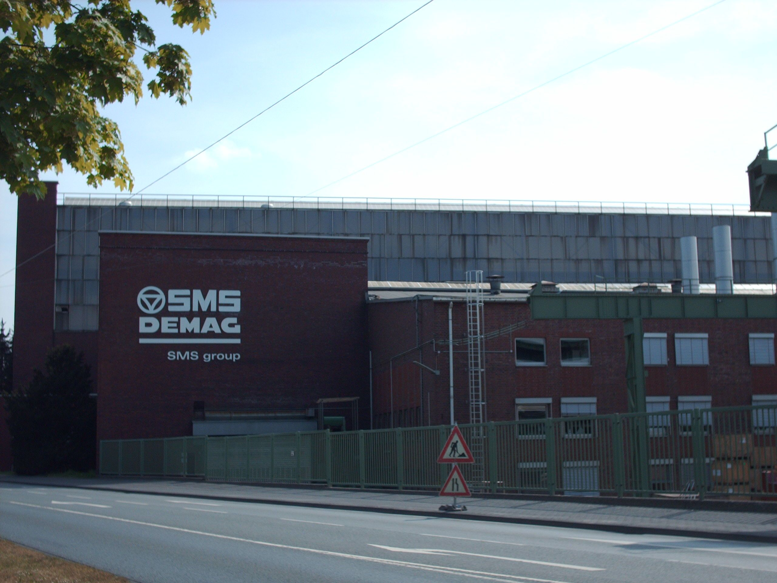 SMS Demag in Dahlbruch, Hilchenbach, Germany check usage